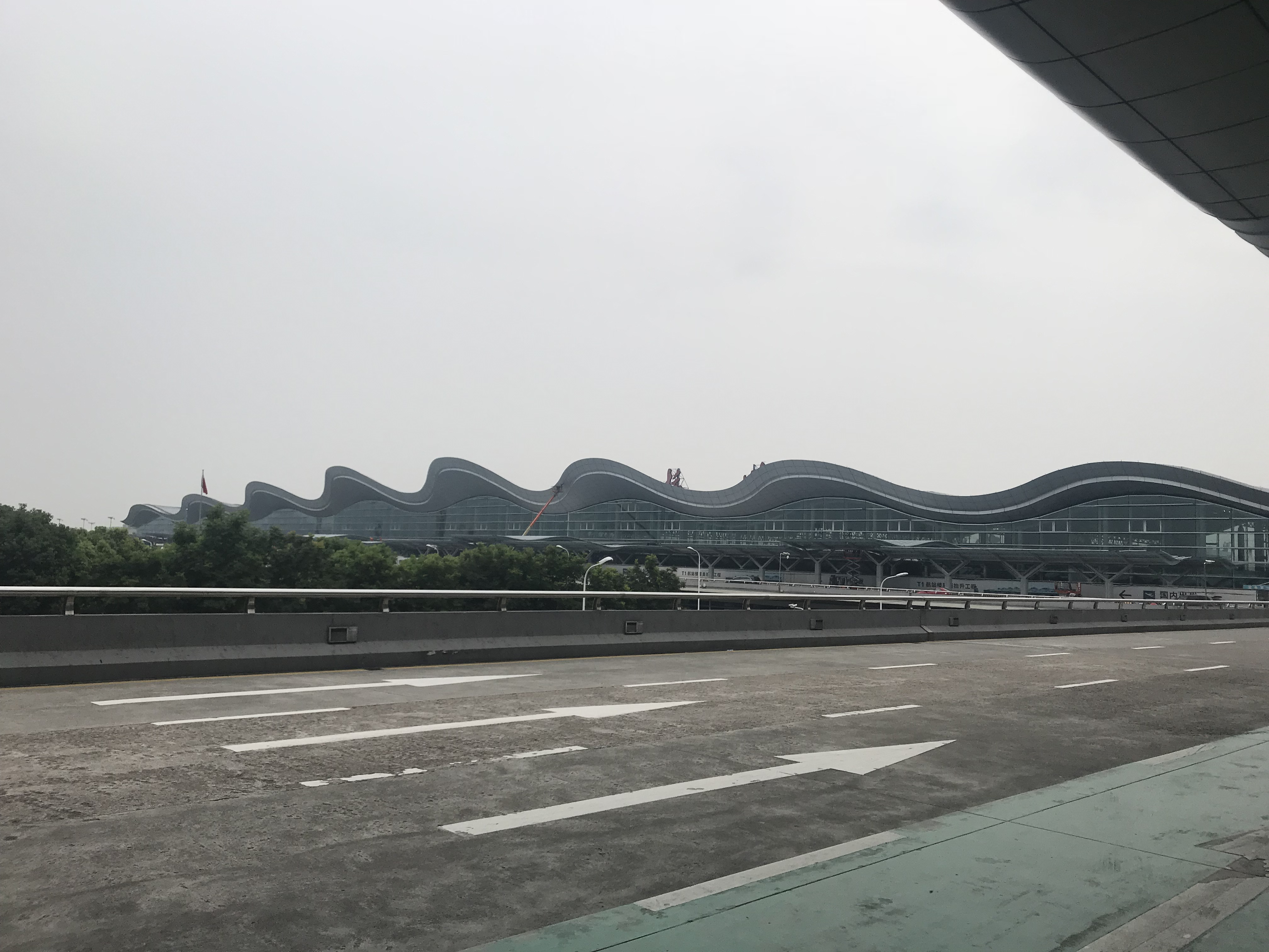 201806 Main Terminal of Hangzhou Xiaoshan International Airport